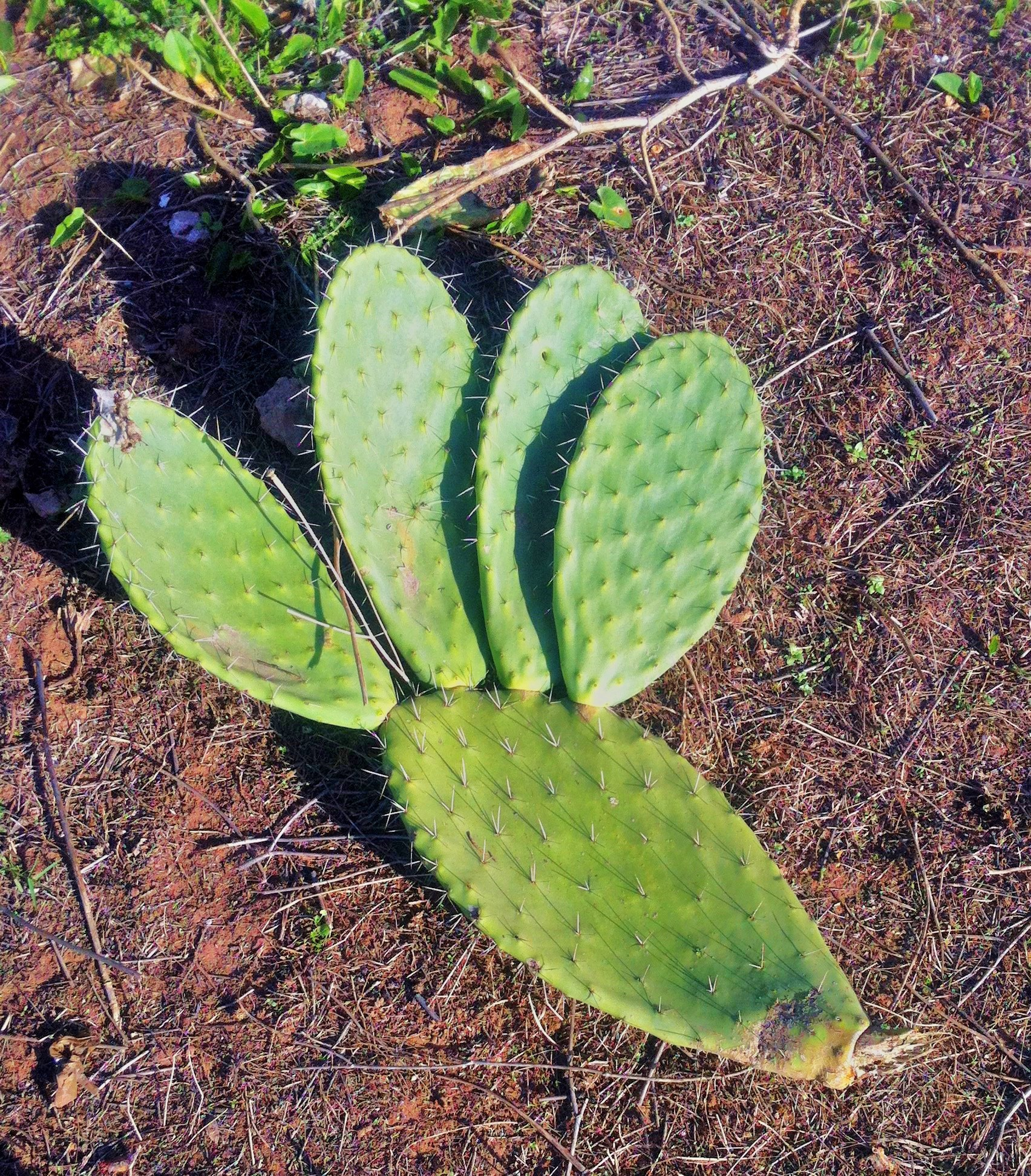 (sample) Stanza wood of cactus,in the agricultural region of Casablanca, Morocco